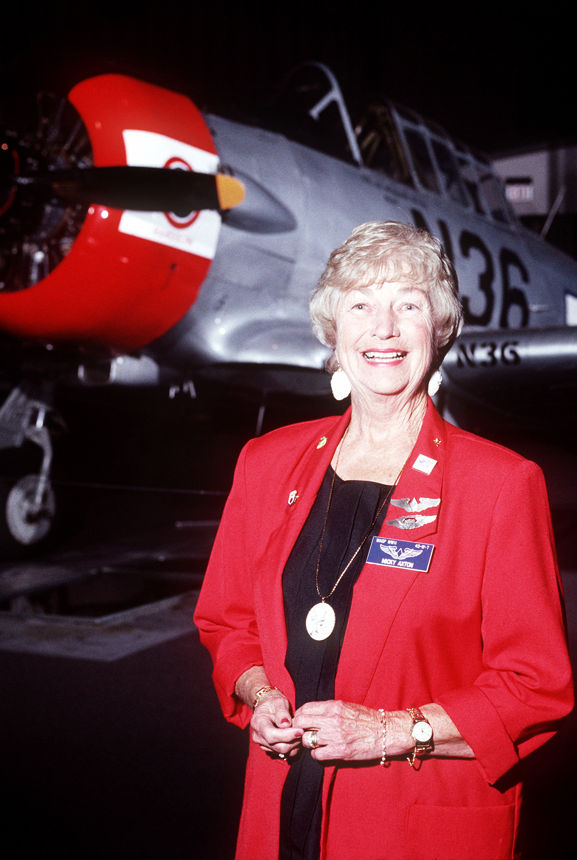 Micky Axton poses in front of an AT-6 at the Confederate Air Force American Airpower Heritage Museum. Ms. Axton was 23 when she joined the Women's Air Force Service Pilots Program (WASP). She flew BT-13s, AT-6s and Cessna UC78s as a tow target pilot during World War II.